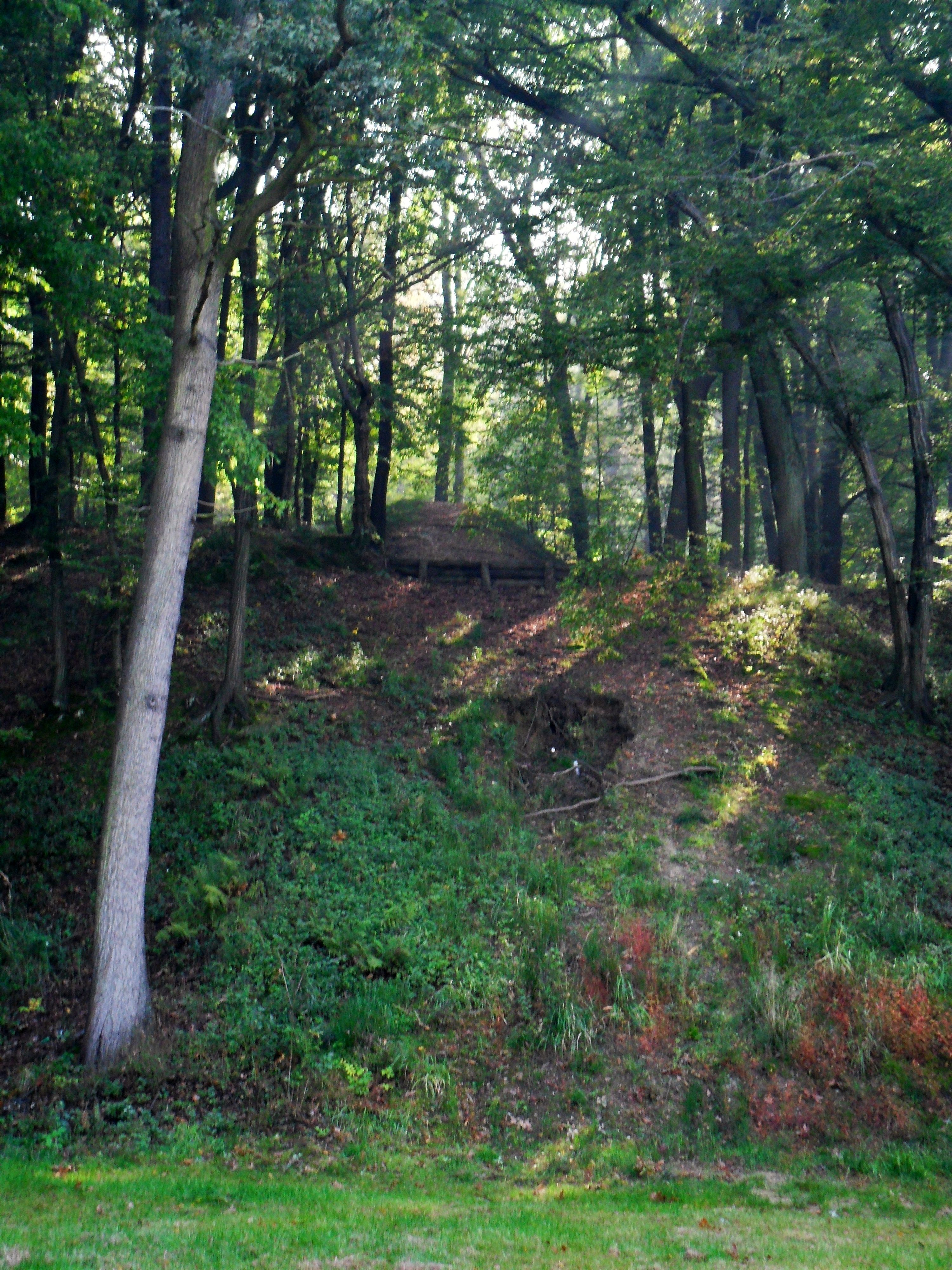 Ski jumping hill in Racibórz